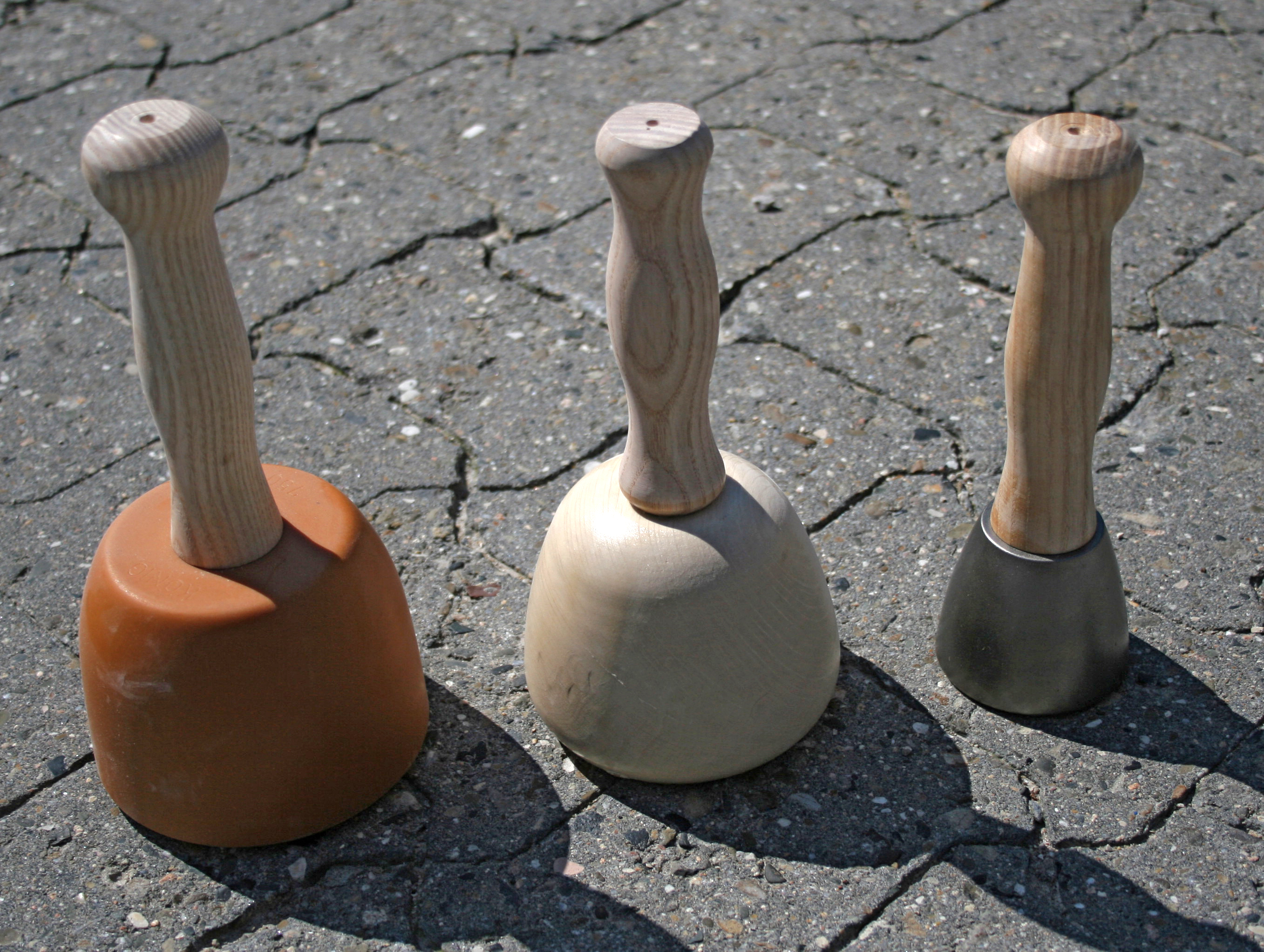 Stonemason's mallets